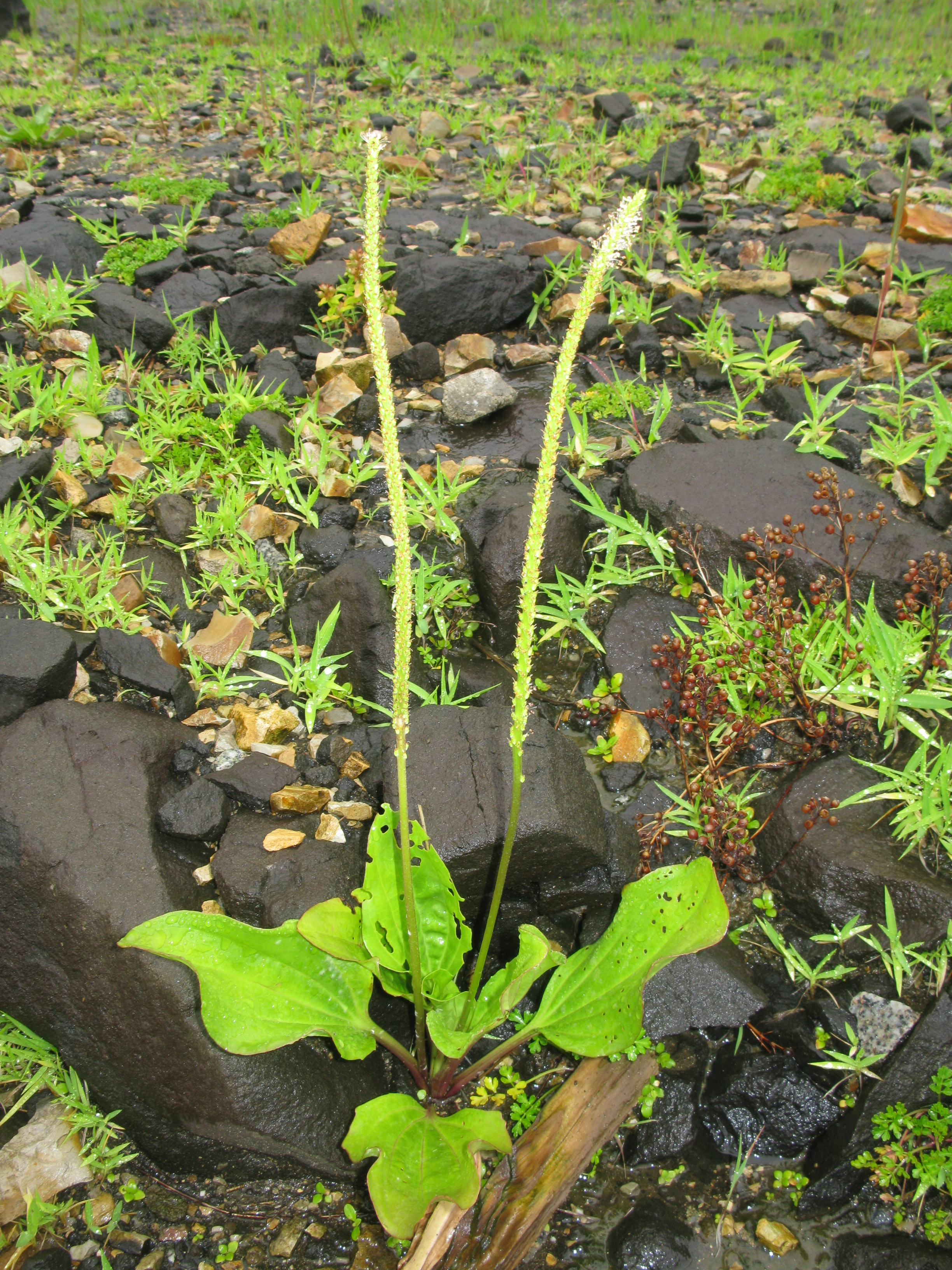 Plantago japonica, Shōnai area, Yamagata pref., Japan